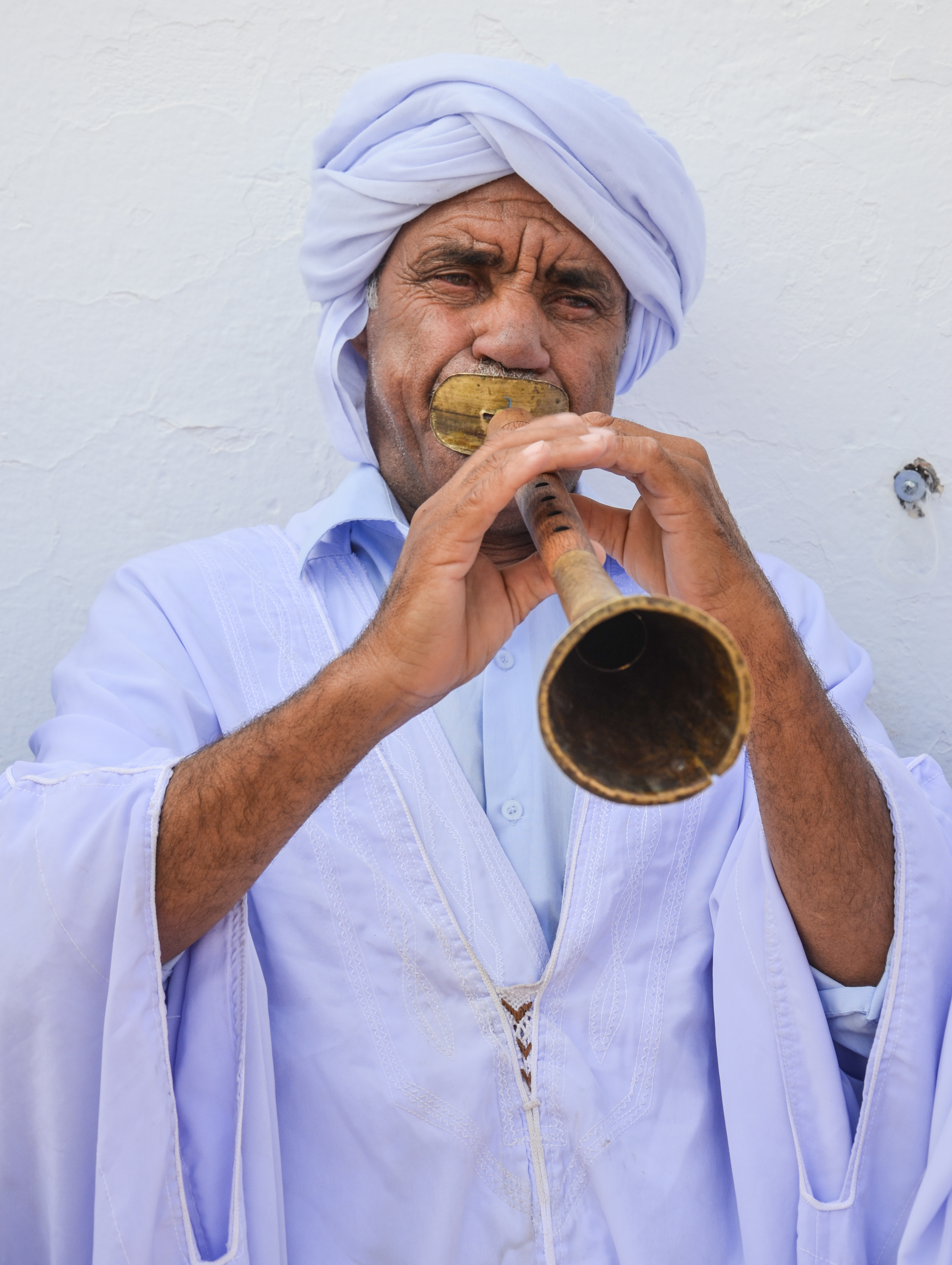 Paying Zorna in Algerian desert This is an image from Algeria